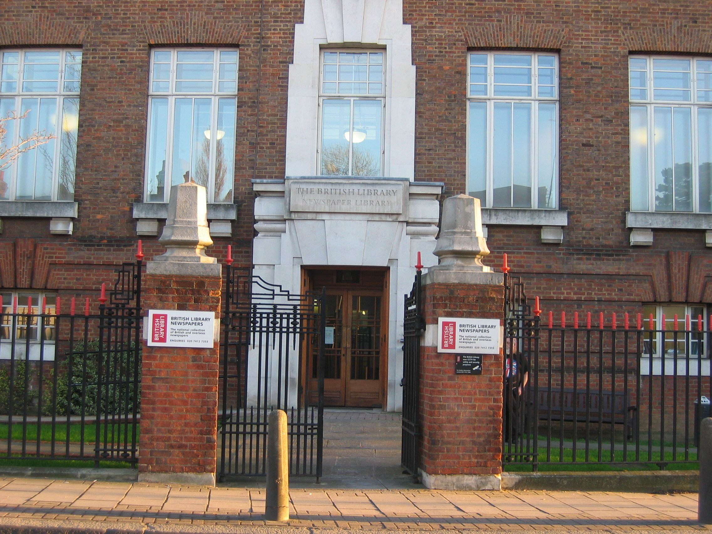 The entrance to the British Library's British Newspaper Library in Colindale, London.